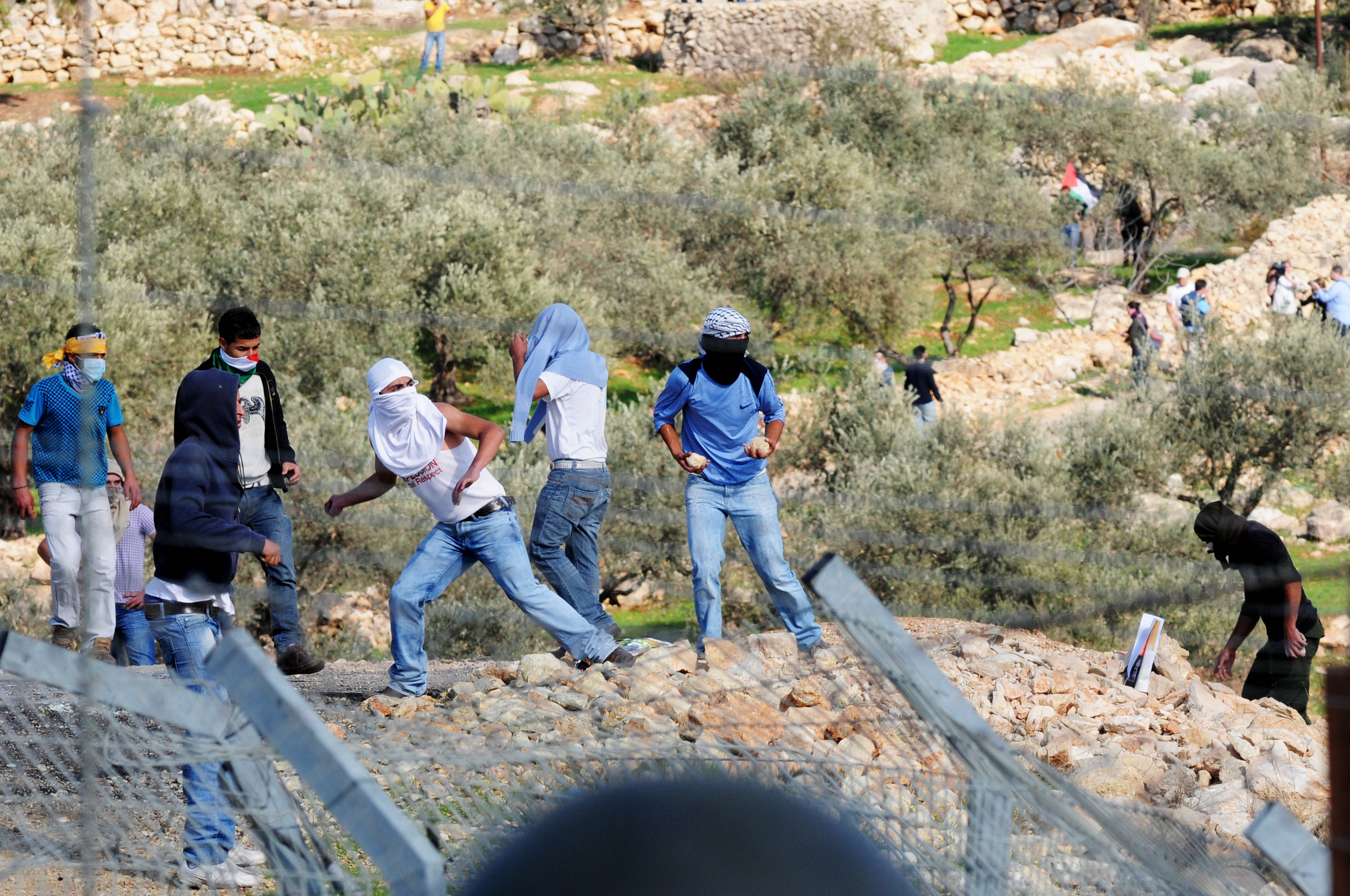 January 7, 2011. Demonstration against land confiscation held at Bil'in.